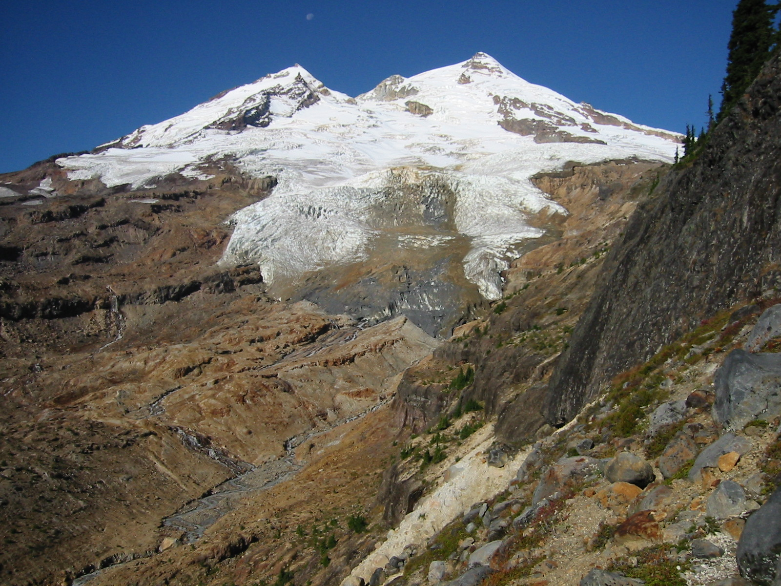 Boulder Glacier with the Sherman (left) and Grant (right) Peaks of Mount Baker behind; the unvegetated terrain below the glacier terminus has been newly exposed by its 430 m retreat since 1980. The lighter brown of the freshly exposed surface of the soil is apparent.